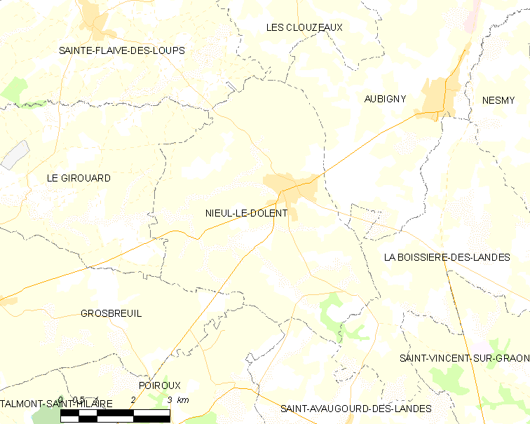 Map of French municipality Nieul-le-Dolent